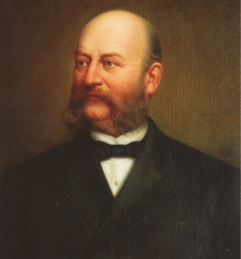 Portrait of the merchant and entrepeneur Johann Georg Lohmann (1830–1892), from 1877 to 1892 director of the shipping company Norddeutscher Lloyd (“North German Lloyd”) in Bremen.